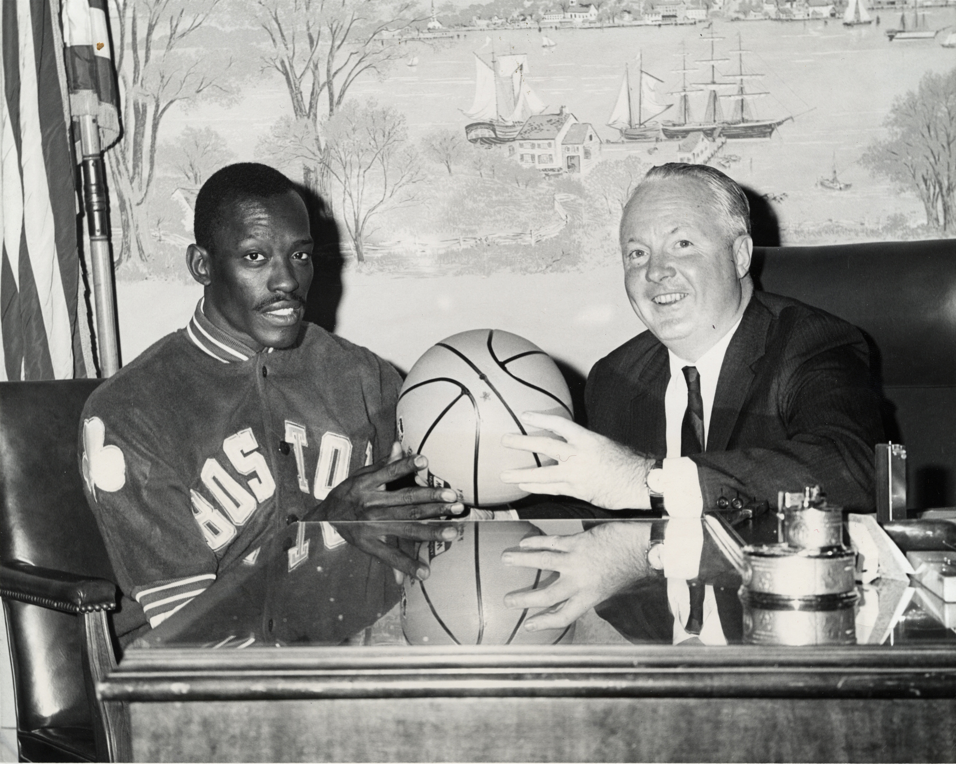 Thomas "Satch" Sander, Boston Celtics basketball star, and Mayor John F. Collins discuss the Boston Youth Activities Bureau's summer basketball program